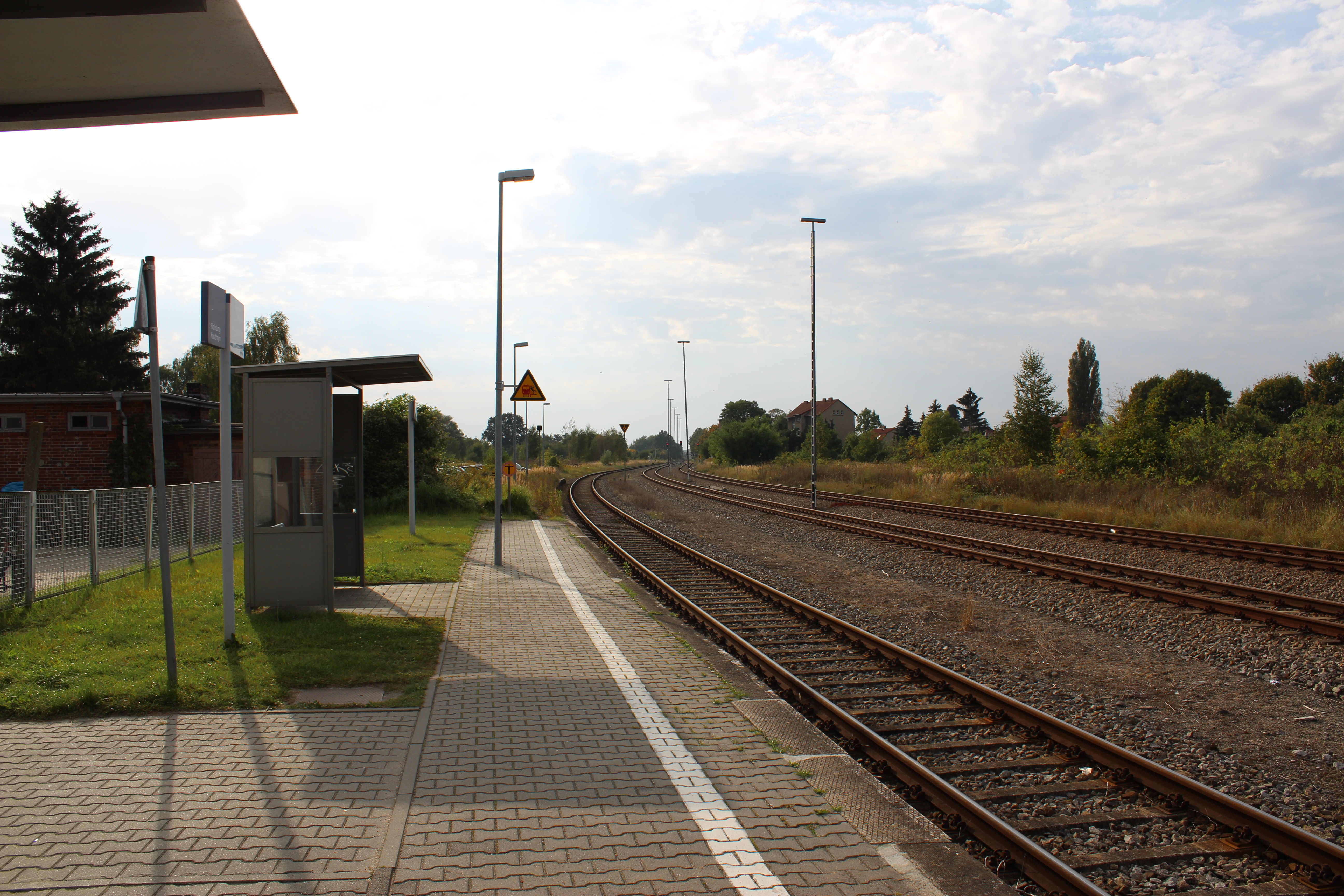 train station Küstrin-Kietz, platforms